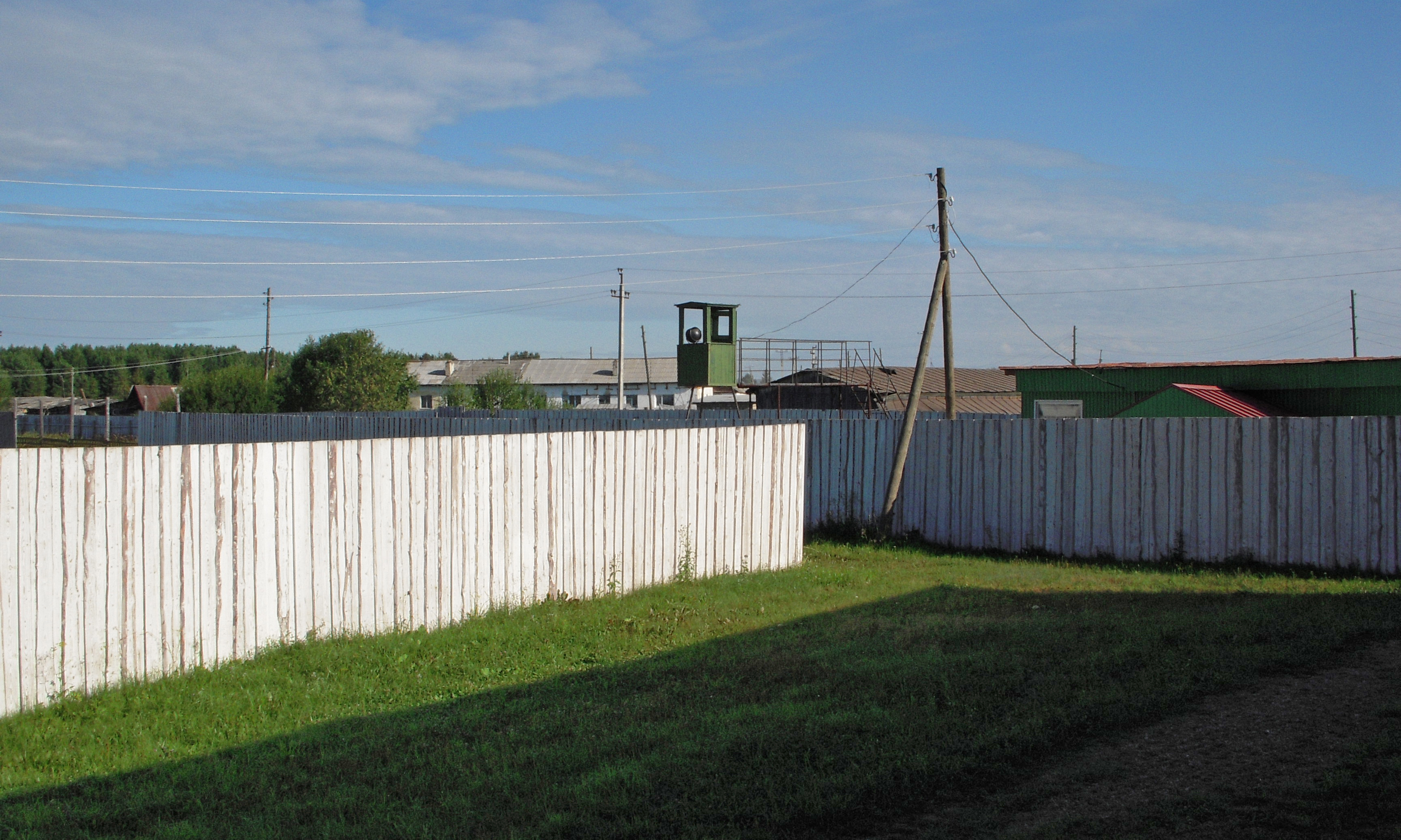 Gulag Perm-36 (Russia, Kuchino near Chusovoi). Vue inside the camp.